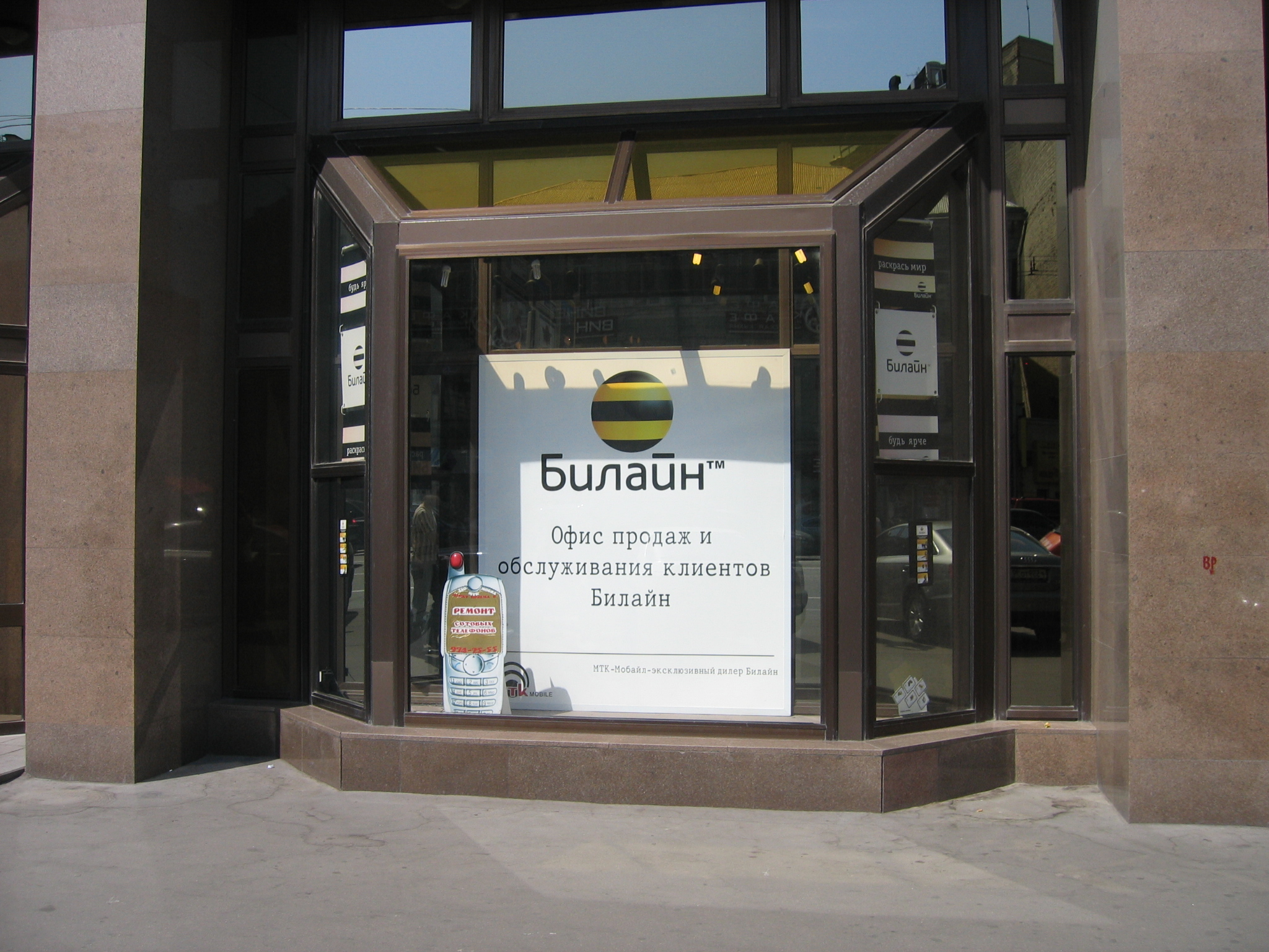 One of Beeline shops in Moscow